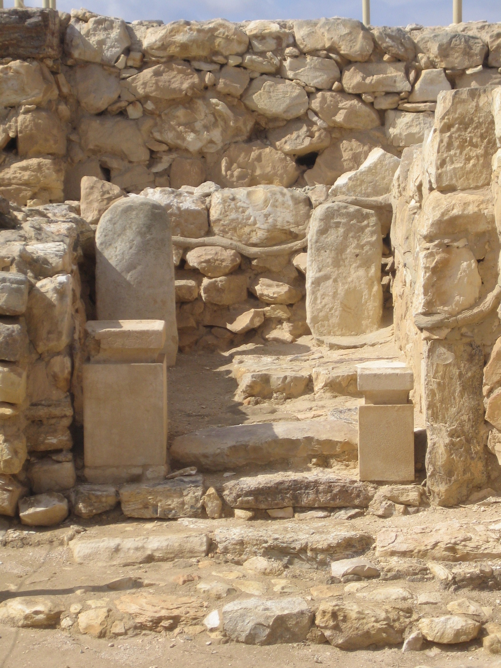 Tel Arad